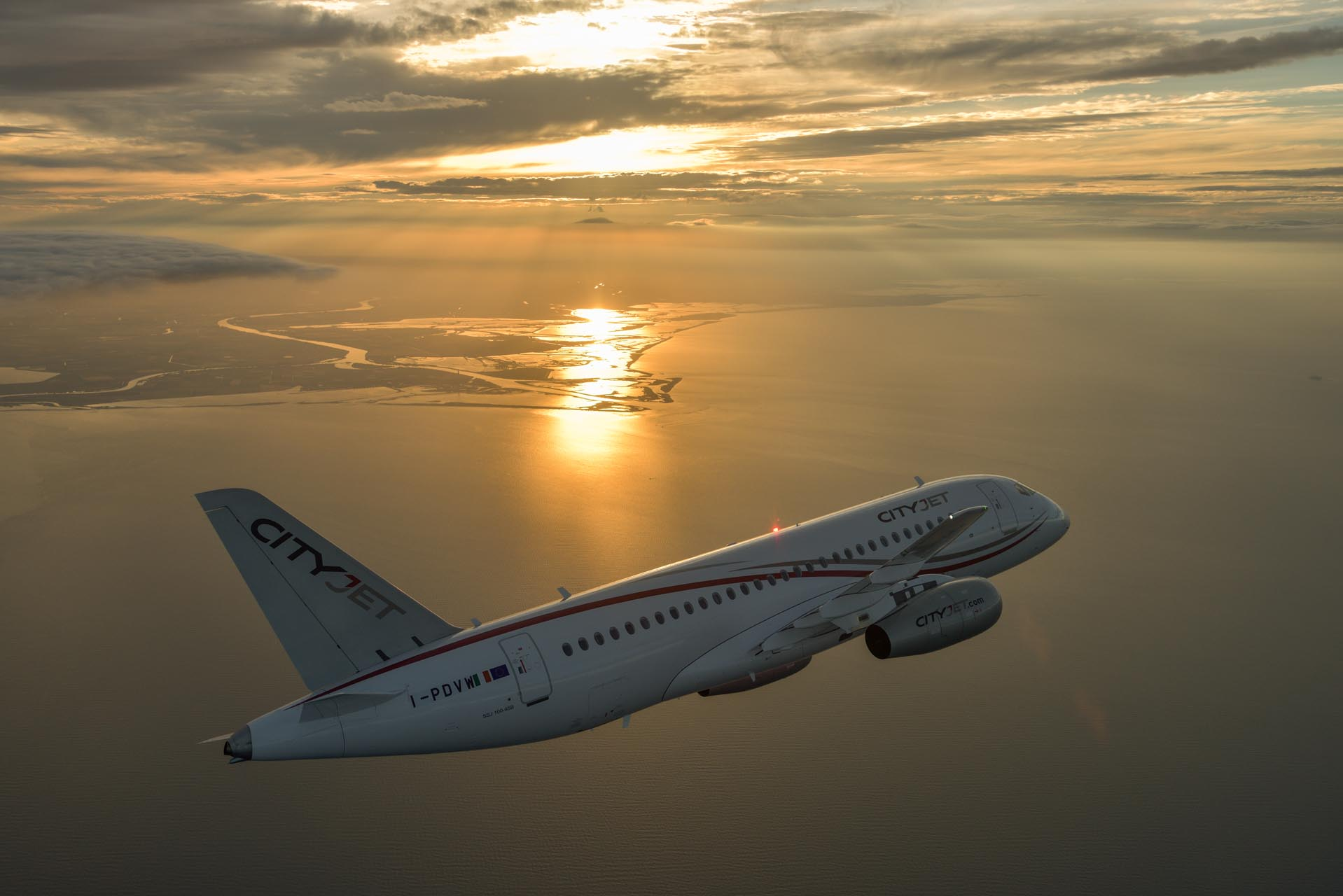 Sukhoi We asked the best aviation photographer Katsuhiko Tokunaga to take some amazing pictures about our beautiful airplane during the sunset around the Venice area (Italy).